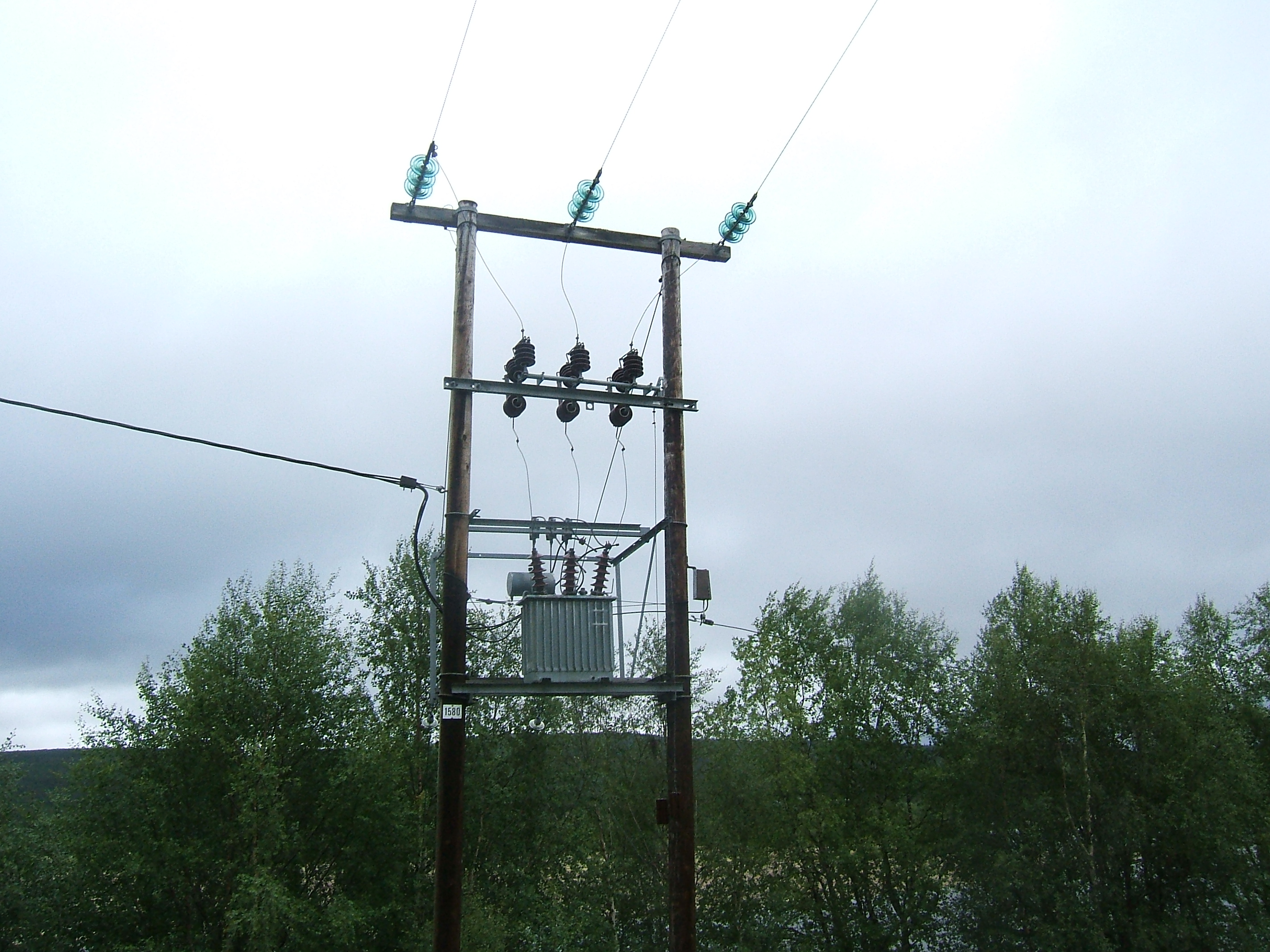 Transformer post, Norway